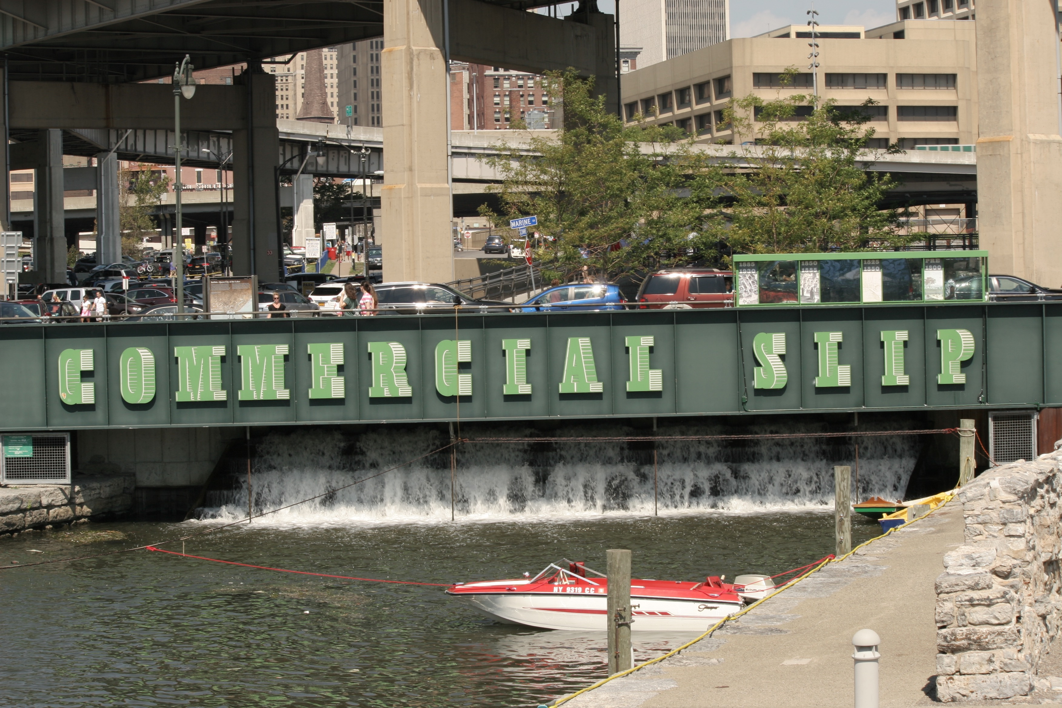 Front of Commercial Slip in Buffalo, NY